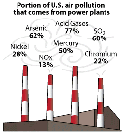 Graphic showing proportions of air pollution in the Unted States that are generated from power plants.